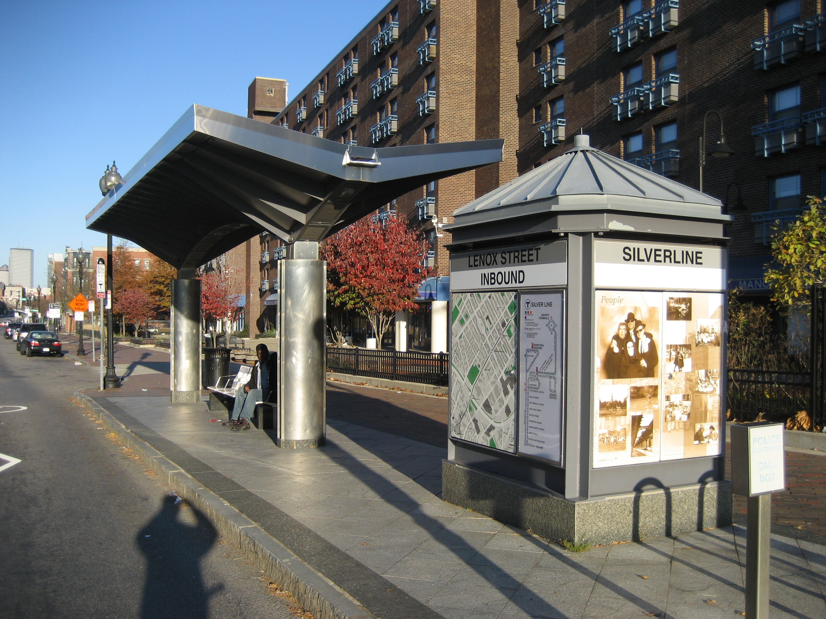 Lenox Street station inbound platform on the MBTA Silver Line.